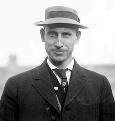 Photograph of Frederick A. Speik, Purdue football coach, 1909